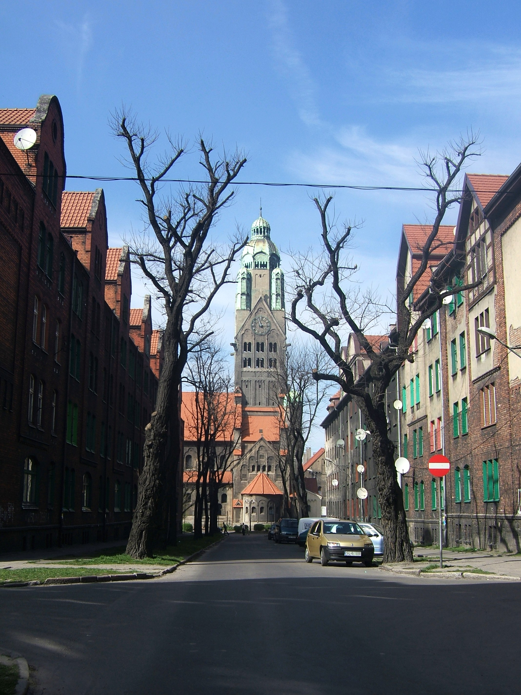 St. Paul's church in Nowy Bytom, a district of Ruda Śląska, seen from Wojska Polskiego street.